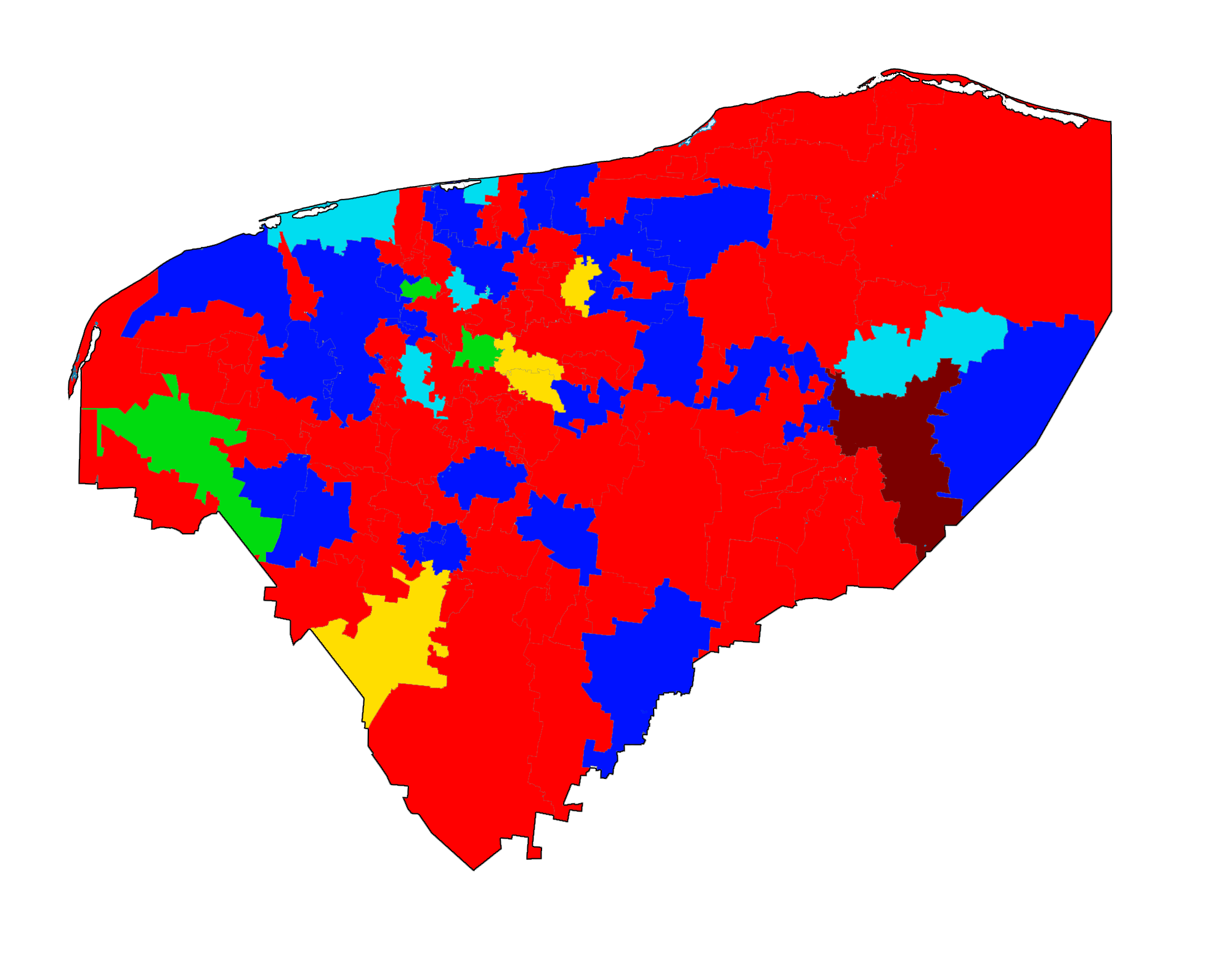 Mayors of Yucatán by political party, in 2015.